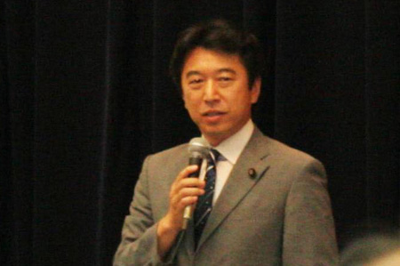 Shin'ya Adachi, Parliamentary Secretary of Health, Labour and Welfare, addressed at the Central Government Building No.5 in Chiyoda Ward, Tōkyō Metropolis on September 22, 2010. (For terms of use, see 利用規約｜厚生労働省.)